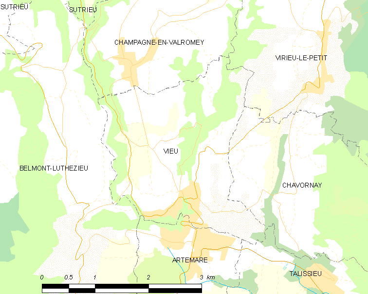 Map of French commune: Vieu Map commune FR insee code 01442.png